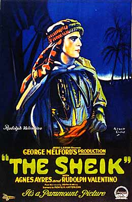 Poster for 1921 film The Sheik starring Rudolph Valentino